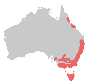 Distribution map of the Crimson Rosella (Platycercus elegans) Based on Image:BlankMap Australia.png Created by Kiwifruitboi 23:13, 20 April 2007 (UTC)